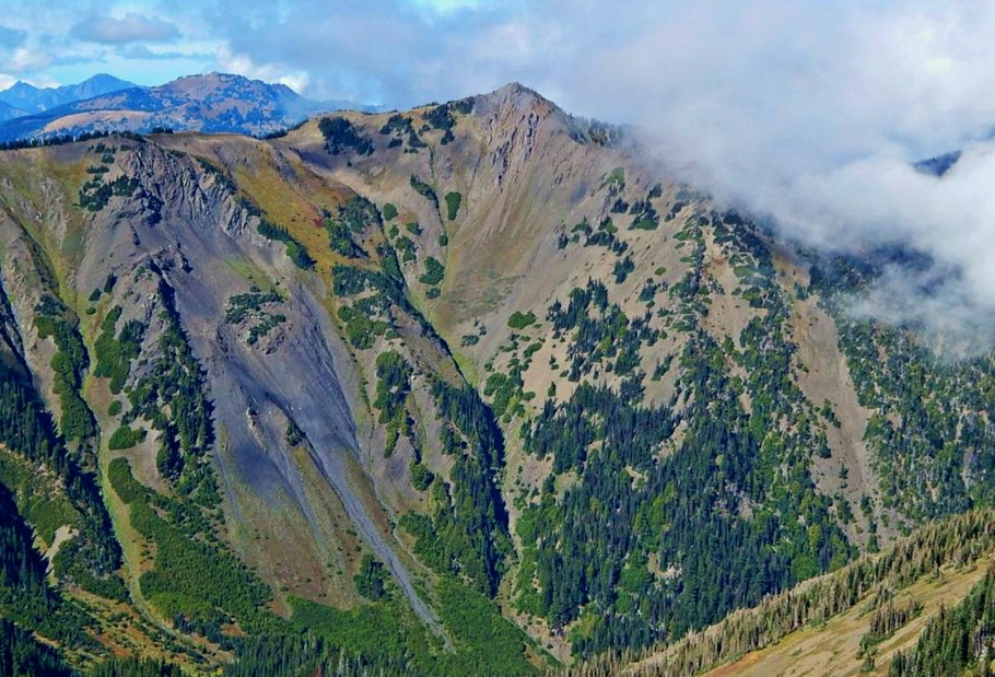 Eagle Point on Hurricane Ridge as seen from Obstruction Peak. Olympic National Park.